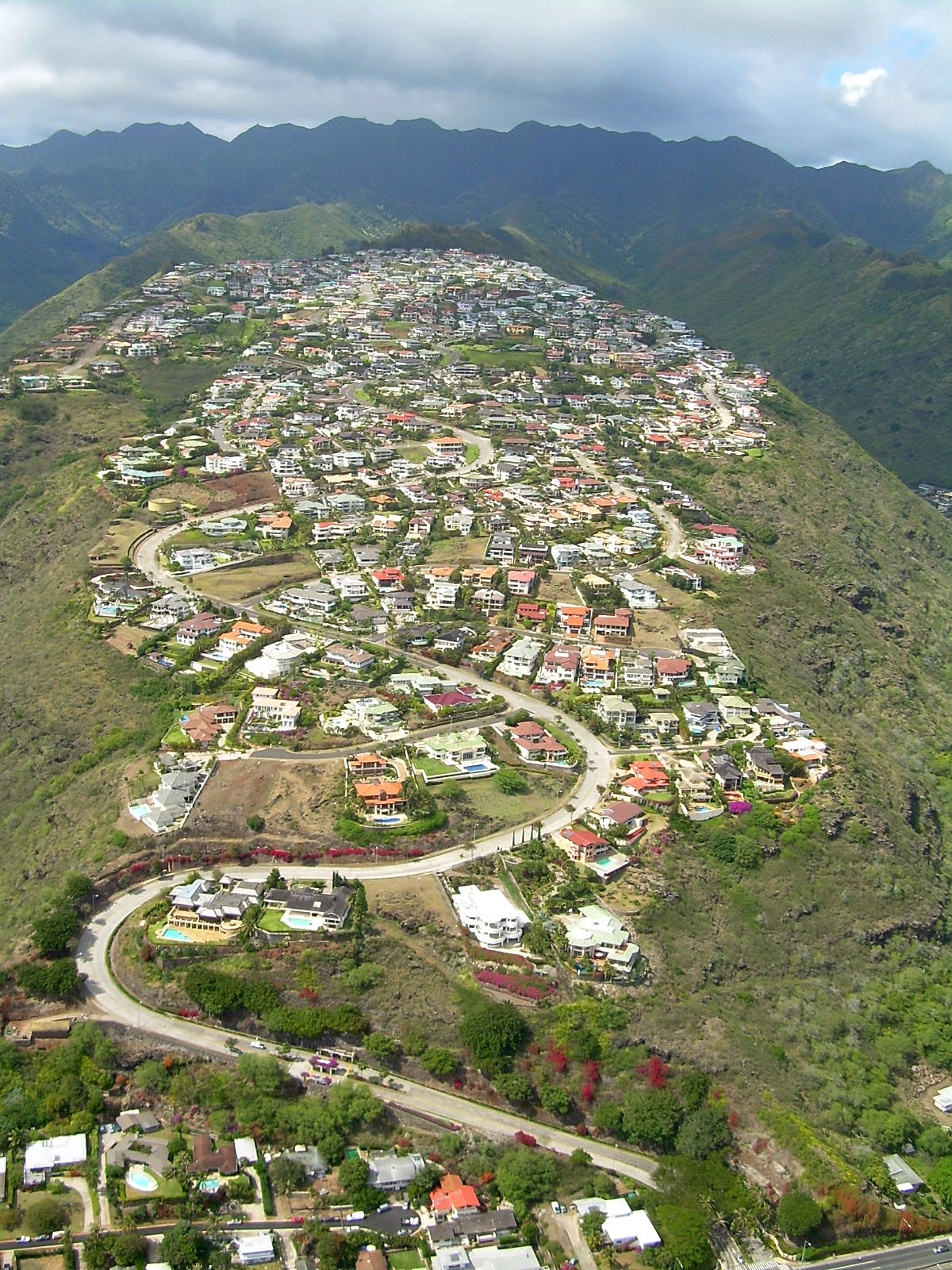 Puuikena Drive winding through Loa Ridge, a gated community on the slopes of Eastern Honolulu, Hawaii. On the bottom, the gate.